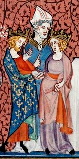 Marriage